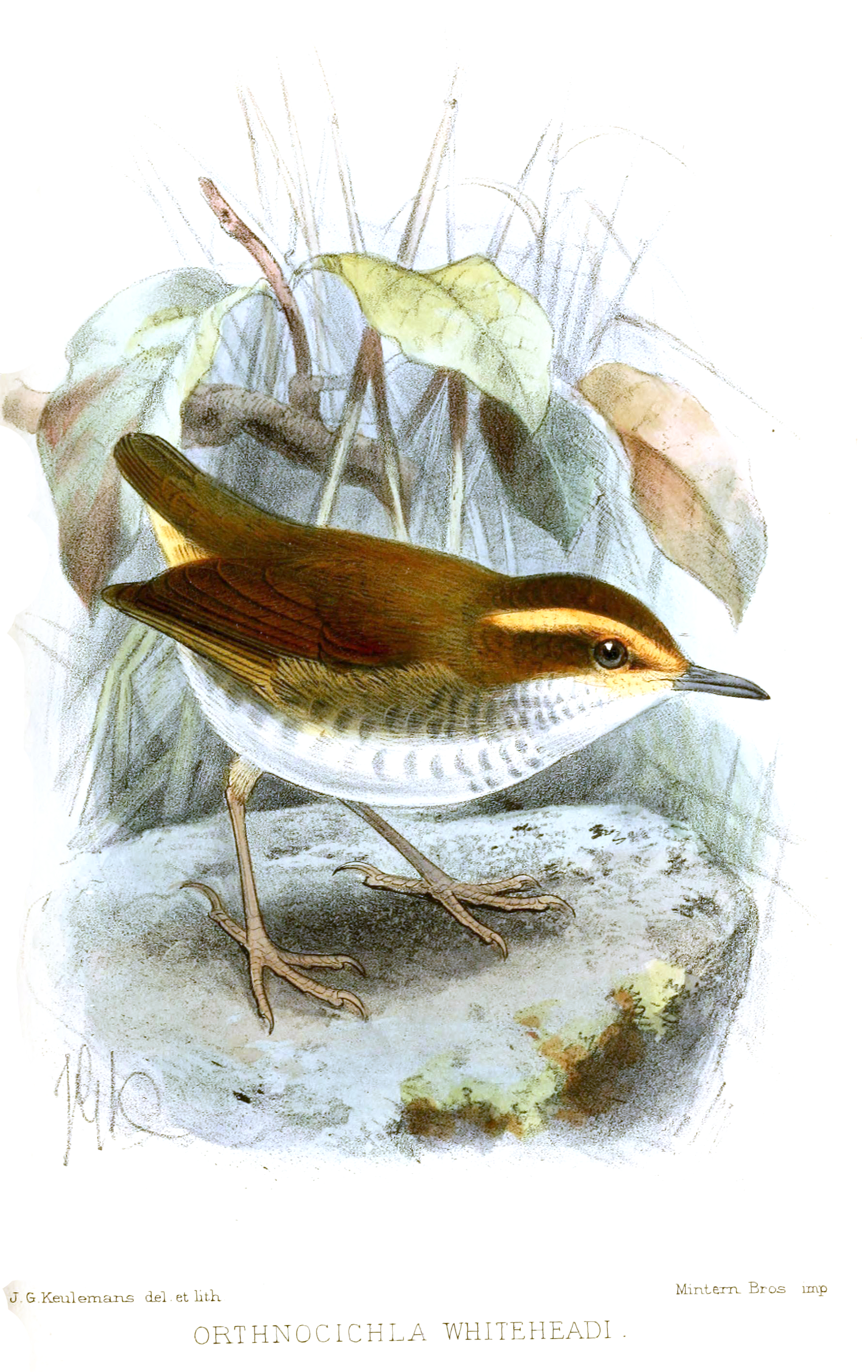 Orthnocichla whiteheadi=Urosphena whiteheadi